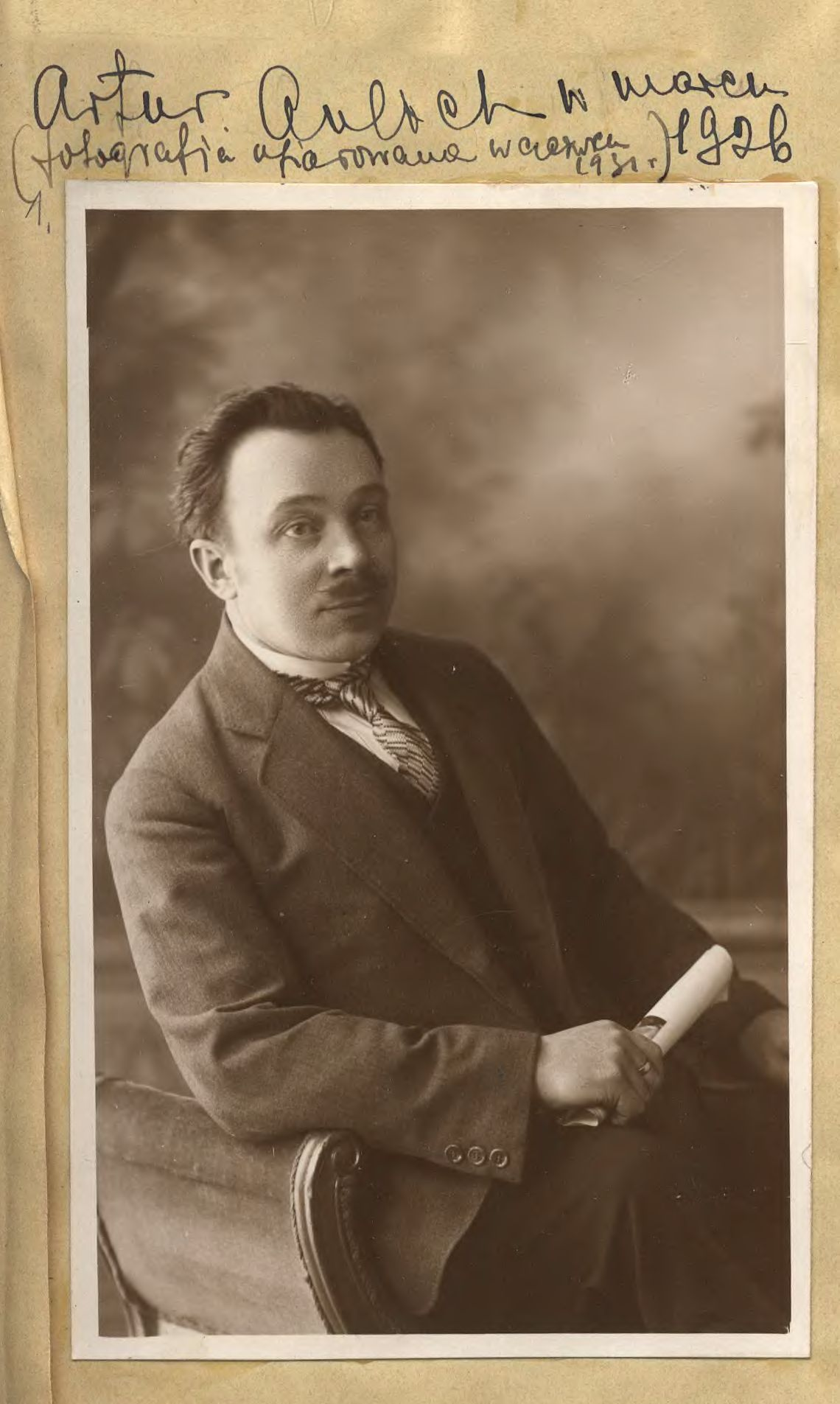 Photograph of Artur Aulich, Polish union activist, prisoner of KL Buchenwald.